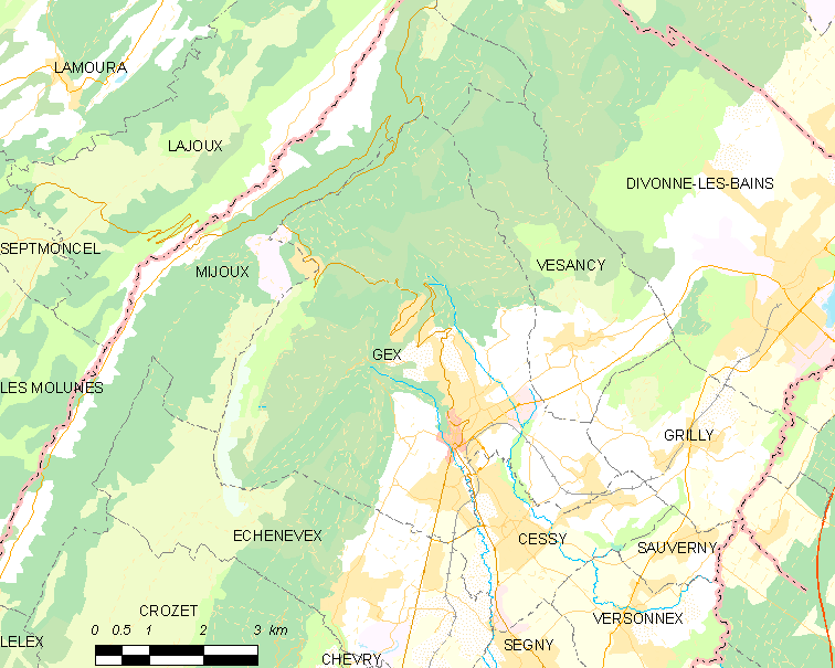 Map of French commune: Gex Map commune FR insee code 01173.png